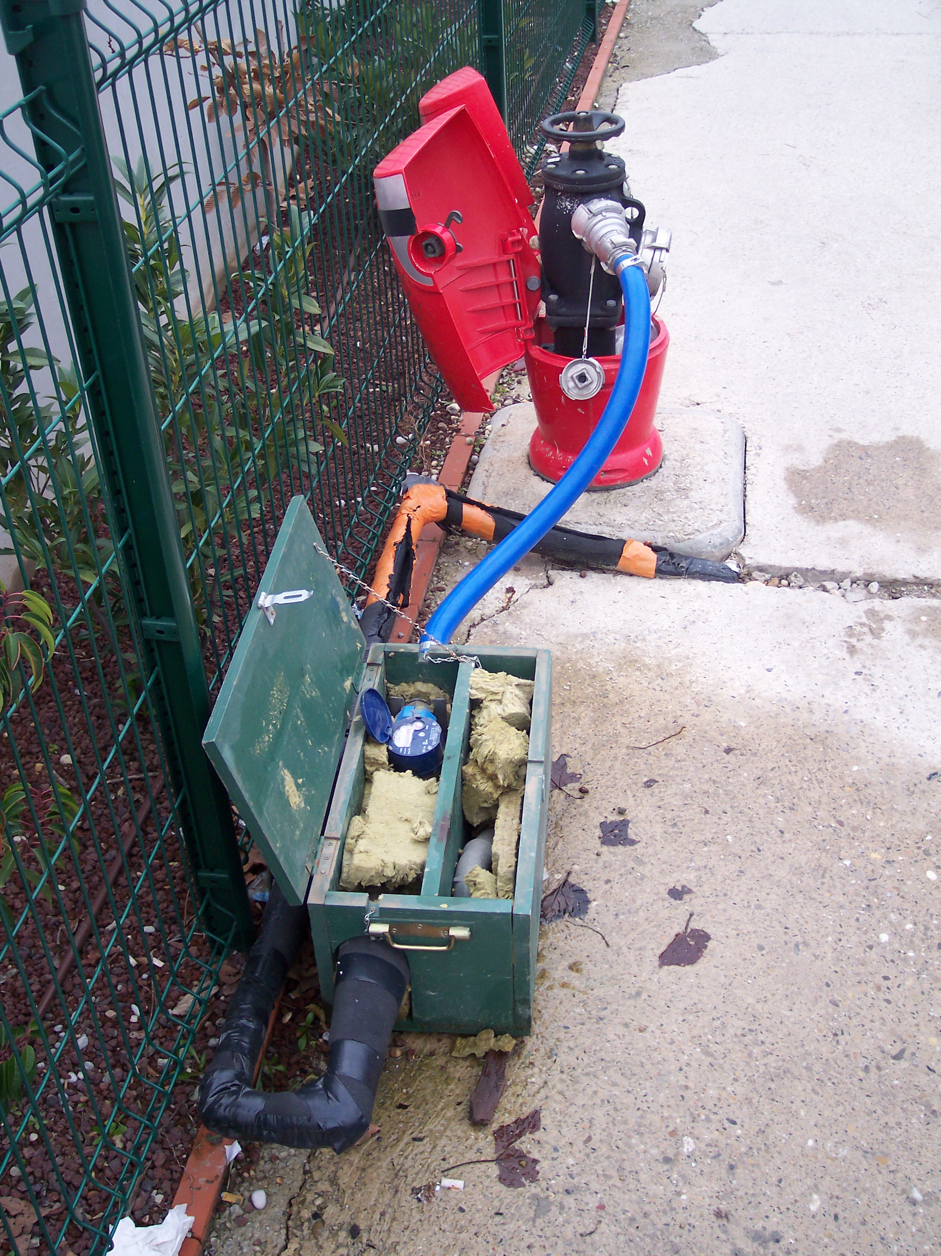 Water